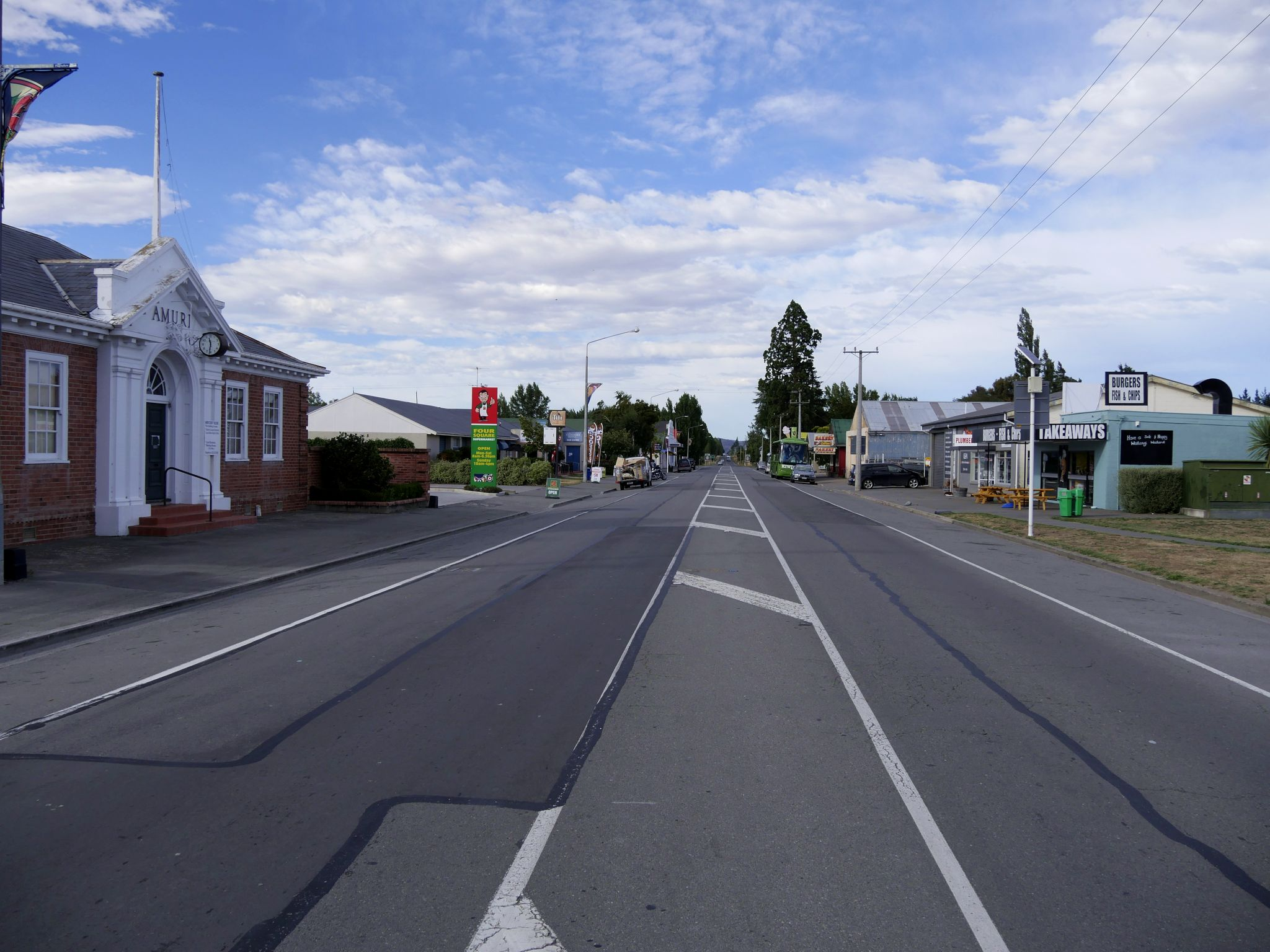 Mountainview Road, Culverden, Hurunui District, Canterbury Region, South Island, New Zealand (view to southwest }